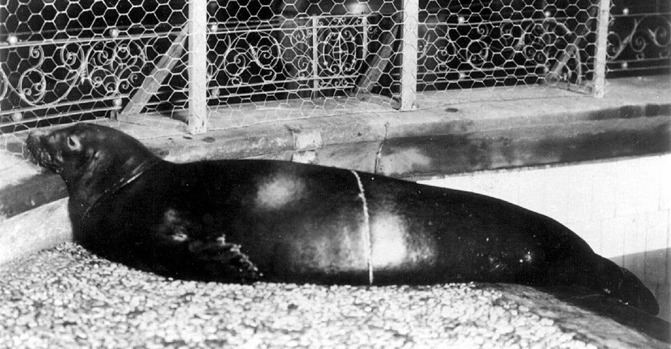 Captive Caribbean monk seal, Monachus tropicalis, of unknown sex at the New York Aquarium in ca. 1910. Specimen originally captured from either Arrecife´s Tria´ngulos (Campeche) or Arrecife Alacra´n (Yucatan) in Mexico (Townsend 1909).